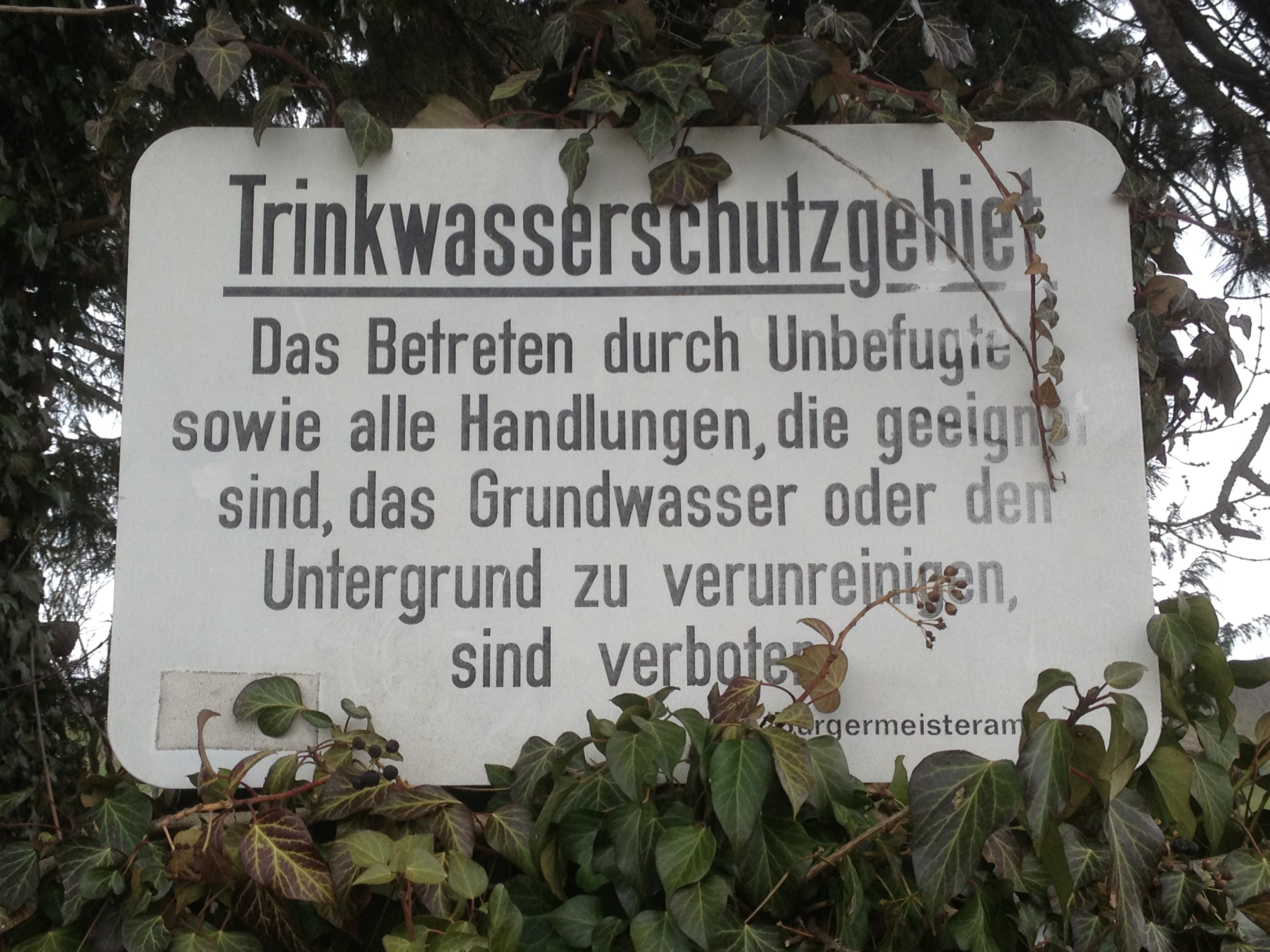 Germany - Baden-Württemberg - Bodenseekreis - Meckenbeuren - Liebenau: drinking water protection area sign"Trinkwasserschutzgebiet"